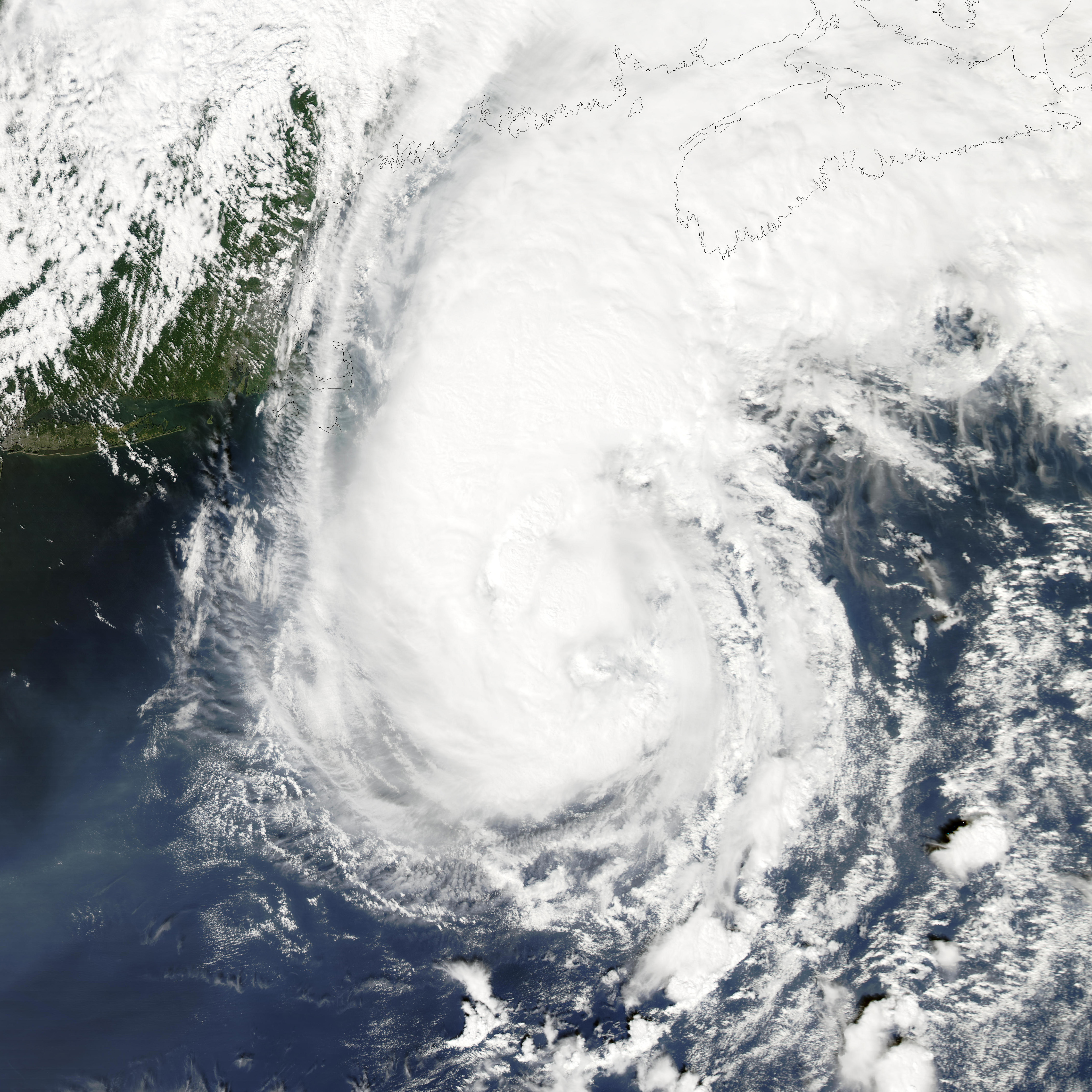 After hugging the Eastern seaboard for several days as a tropical storm, the storm called Gustav finally made Hurricane status on September 11, 2002, as it moved away from the Maryland and Delaware coasts. The storm eventually made landfall in southwestern Newfoundland on September 12, 2002. This image was acquired by the Moderate Resolution Imaging Spectroradiometer (MODIS) instrument on the Aqua satellite.